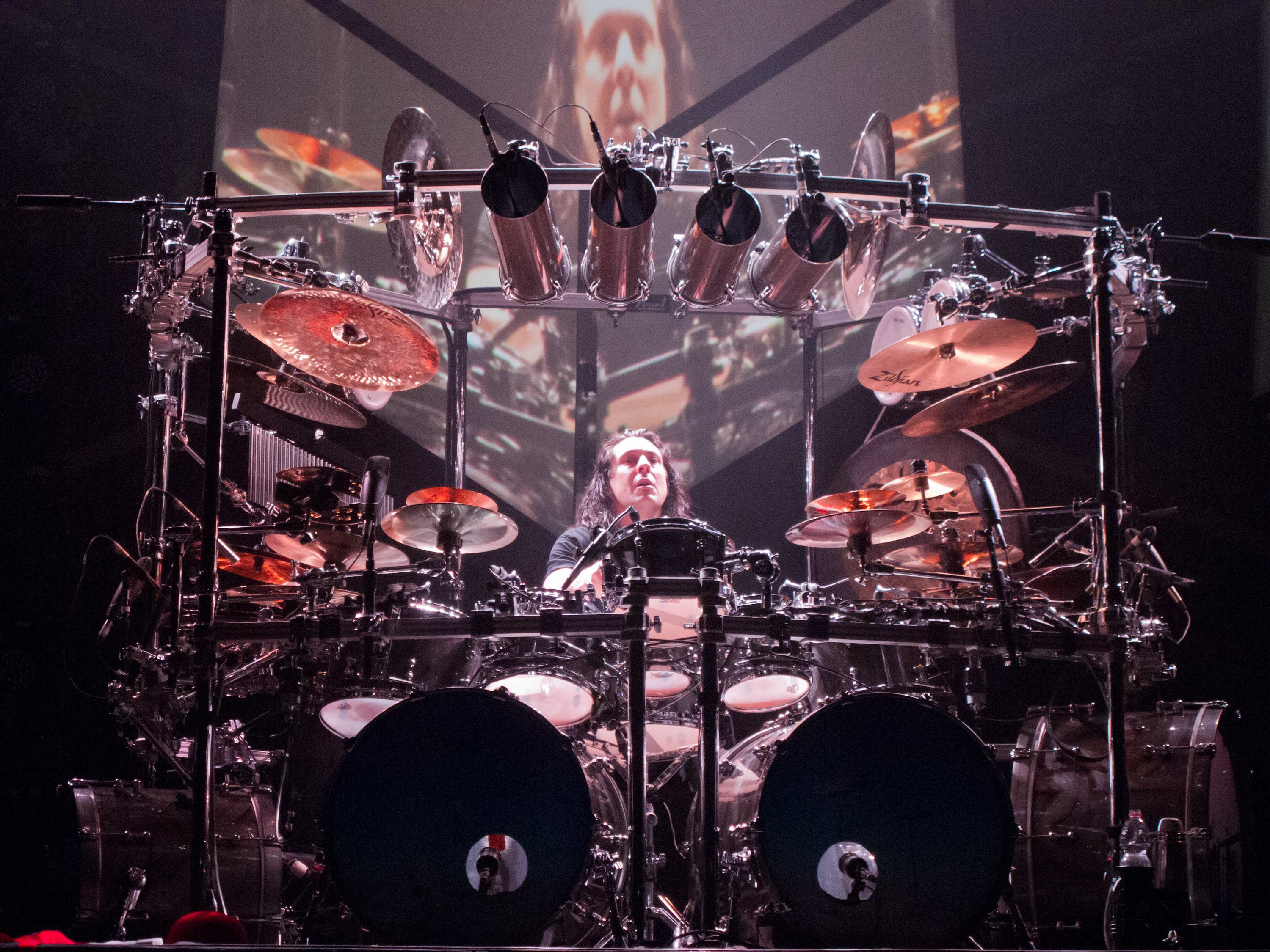 Mike Mangini live in 2012.